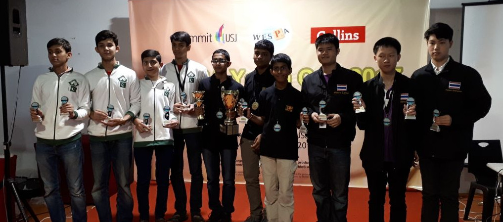 The ten young players who finished with in the top ten of the WESPA Youth Cup (Also known as WYSC) in 2017